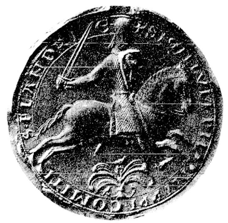 Philip of Alsace